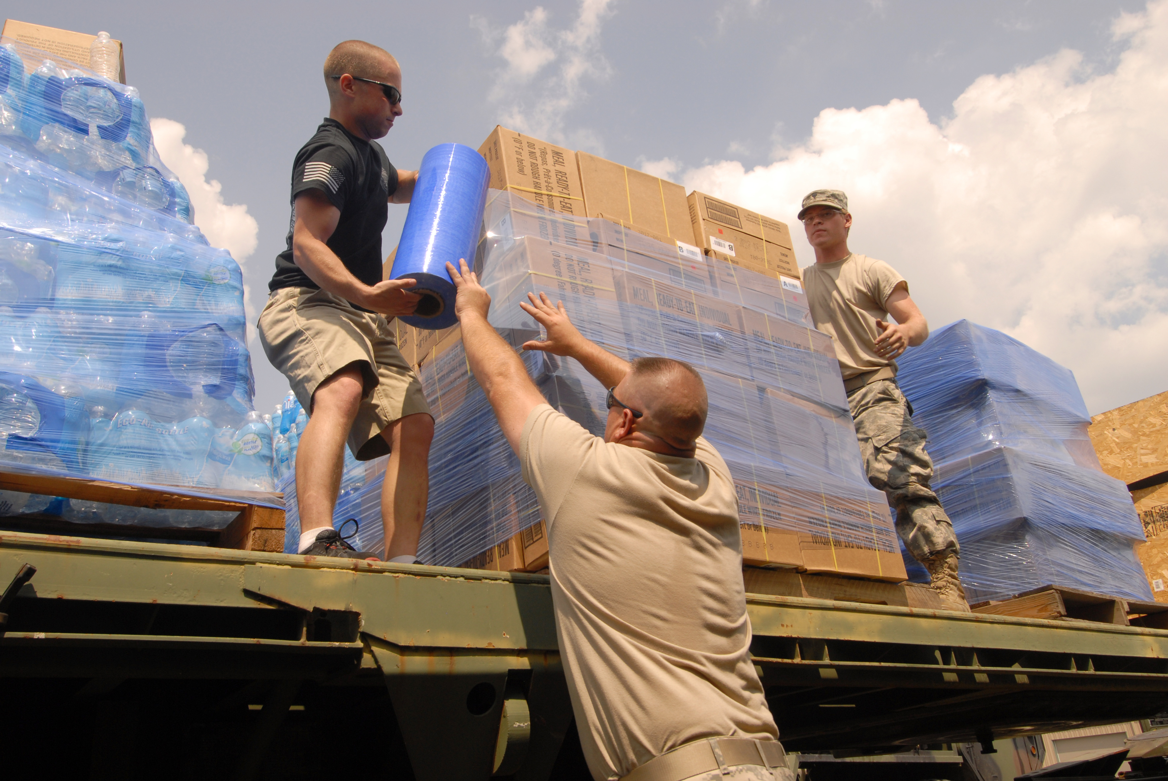 Soldiers from the Ohio National Guard’s 73rd Troop Command, package bottled water to be delivered to water distribution sites throughout Toledo, Ohio, Aug. 3, 2014. Ohio Governor John Kasich declared a state of emergency Aug. 2, 2014, after a harmful algae bloom in Lake Erie contaminated the area’s public water system. Members of the Ohio Army and Air National Guard have been activated to stand up water distribution sites for those communities impacted until the state of emergency is lifted. (Ohio Air National Guard photo by Master Sgt. Beth Holliker/Released)